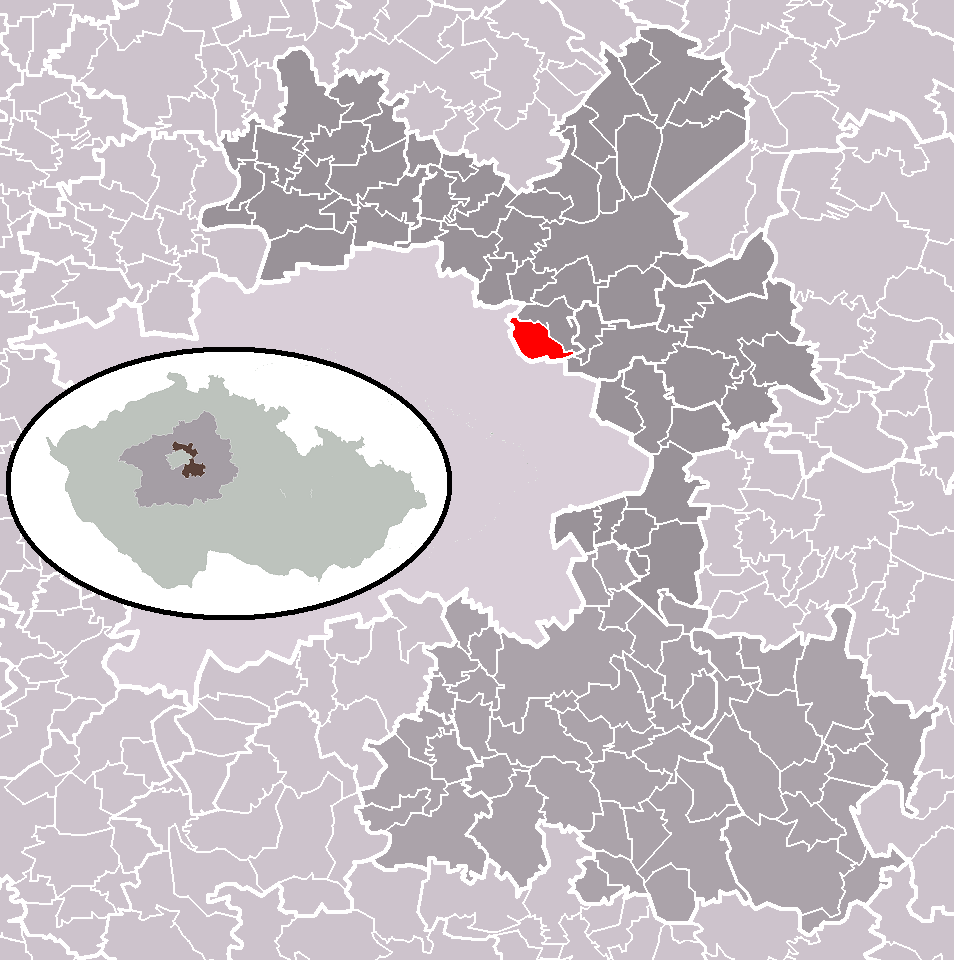 Location of Radonice municipality within Prague-East District and administrative area of Brandýs nad Labem-Stará Boleslav as a Municipality with Extended Competence.